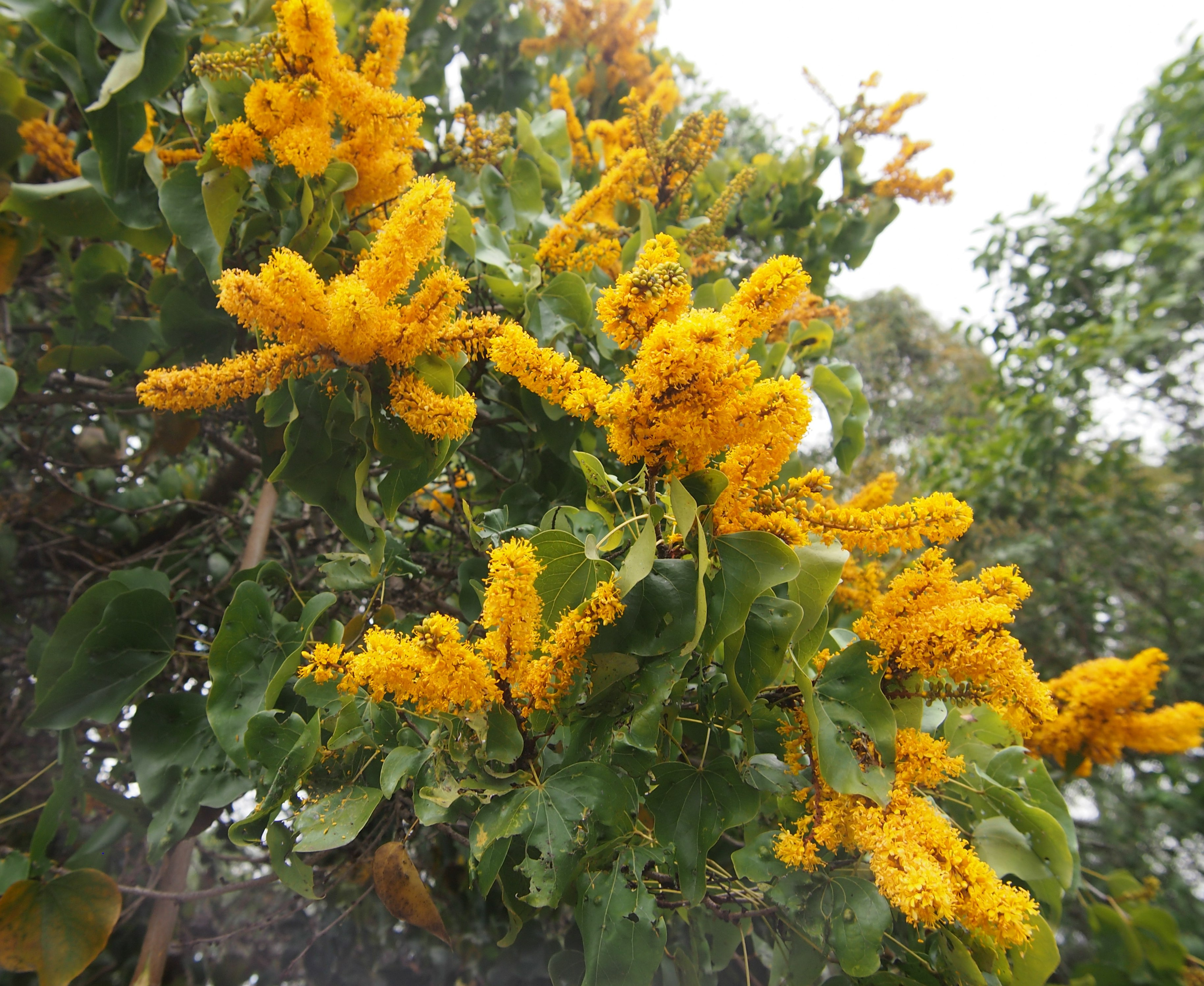 Barklya syringifolia foliage and flowers